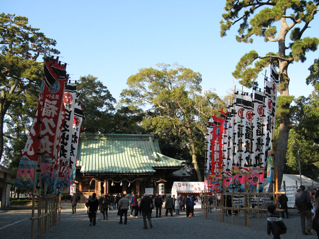 Yaizu-jinja.